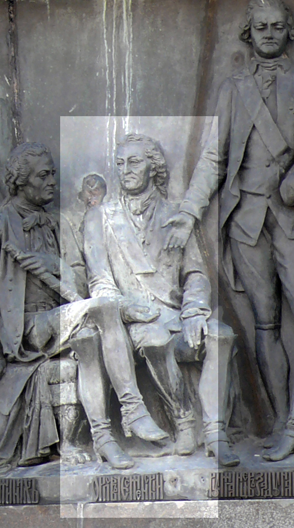 Alexey Orlov-Chesmensky on the Monument «Millennium of Russia» in Veliky Novgorod